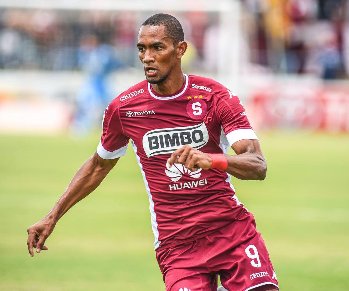 Jerry Bengtson playing for Saprissa on July 30th, 2017.